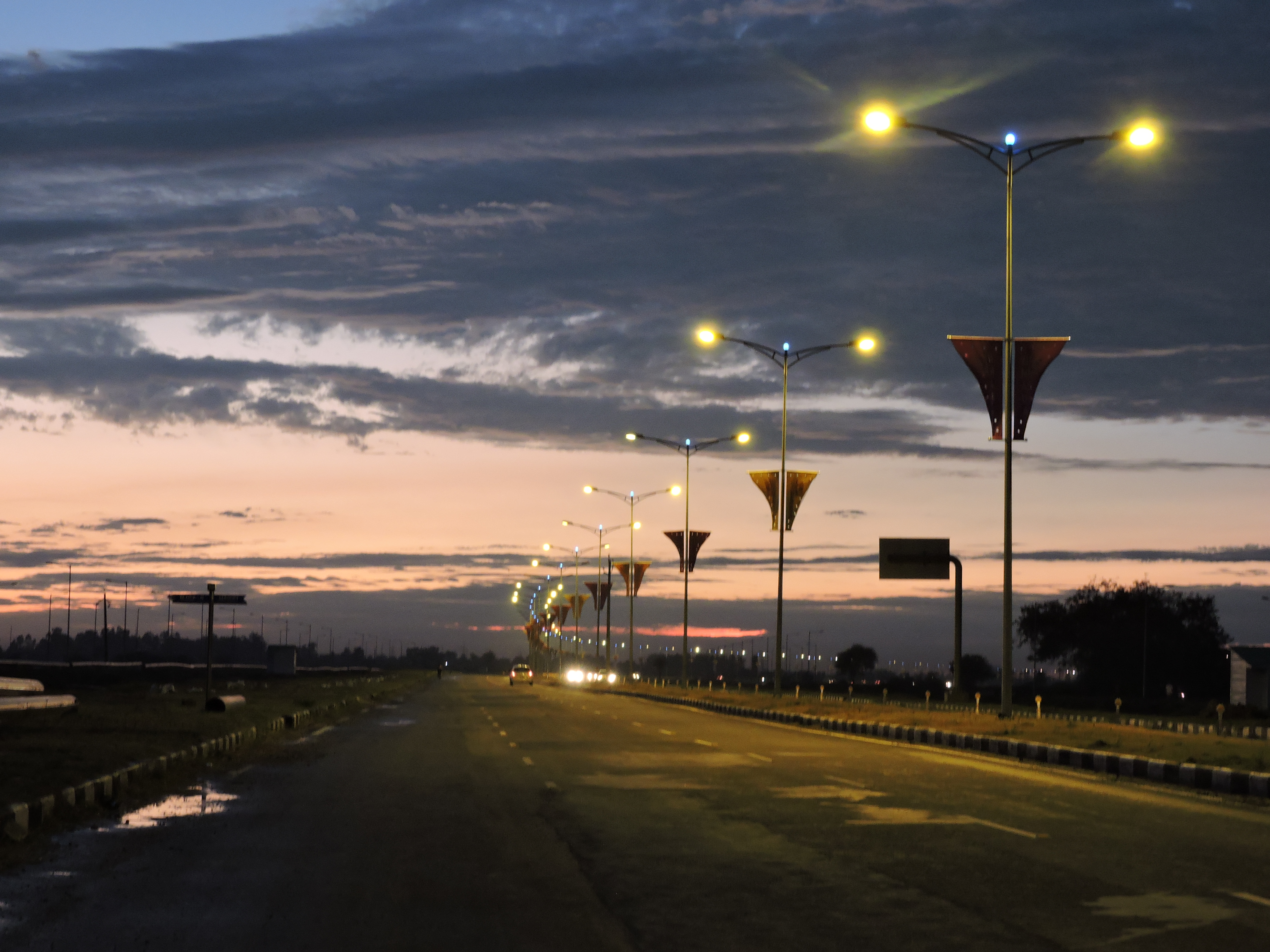 Chandigarh International Airport road , Mohali, Punjab, India